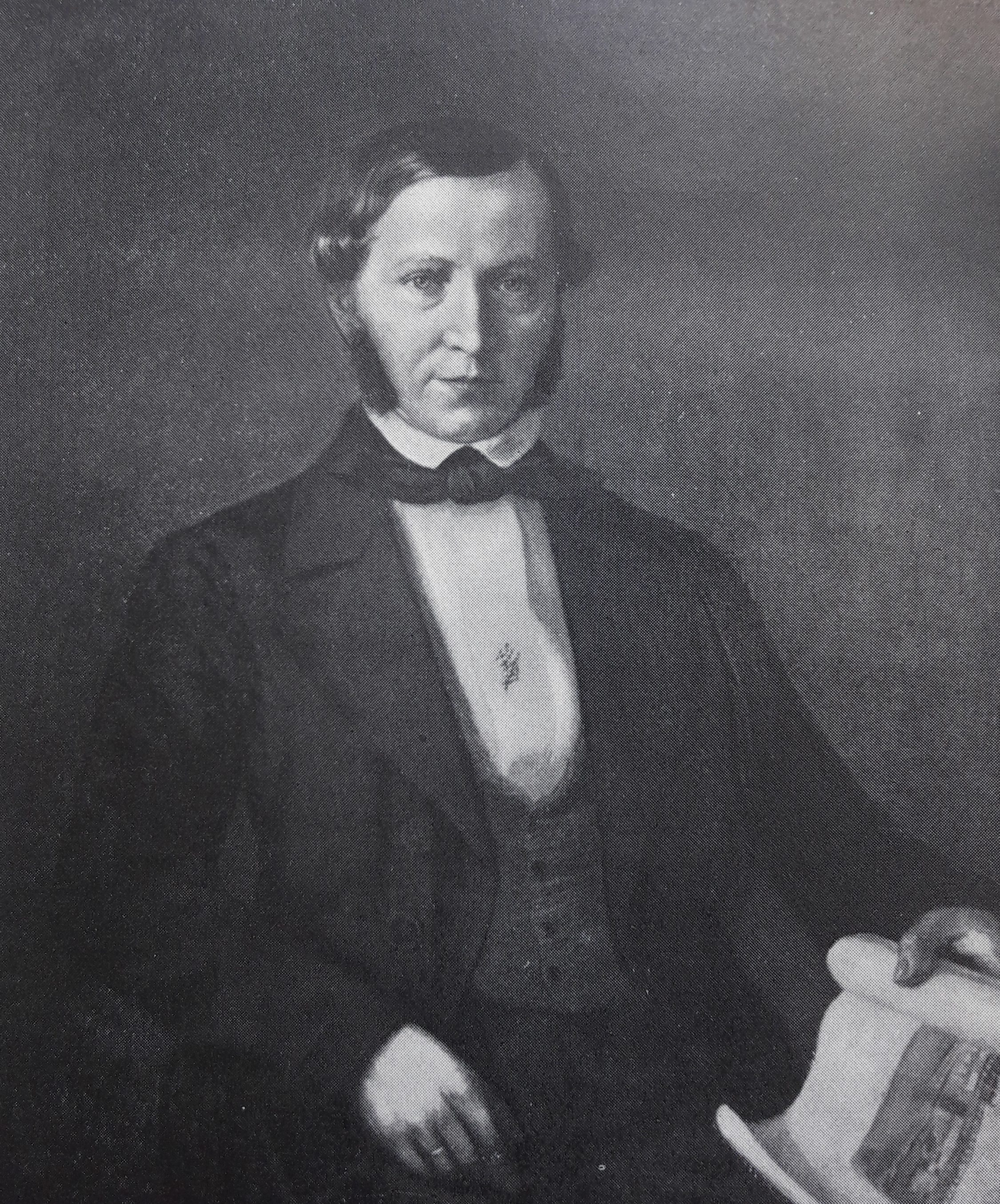 Johann Caspar Harkort VI zuHarkorten